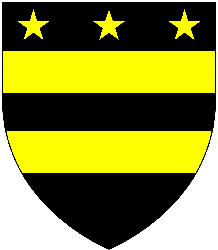 Arms of Freke Sable, two bars or in chief three mullets of the last. Freke baronets; Freke of Iwerne Courtney, Dorset.